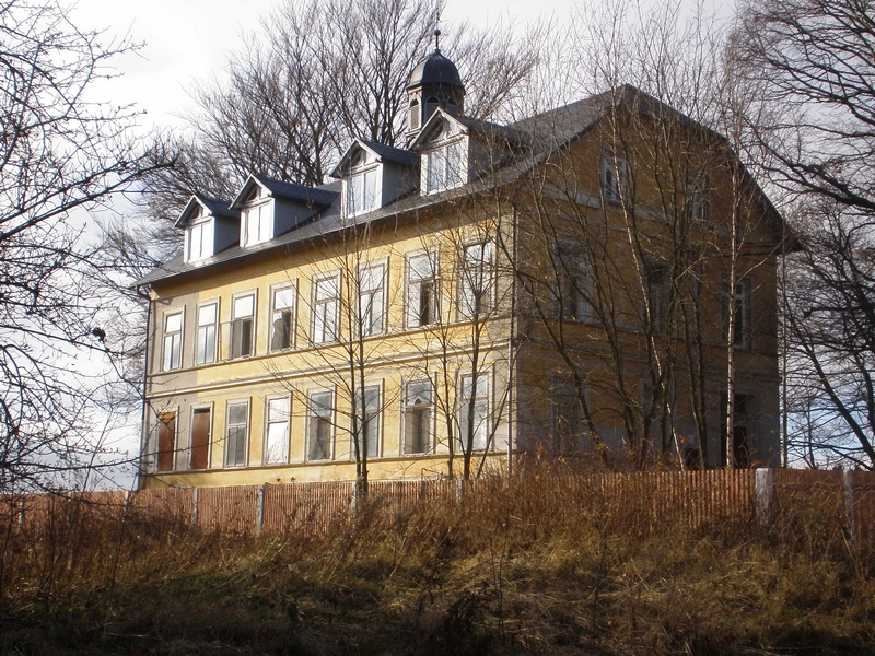 Studánka (Hranice), former school